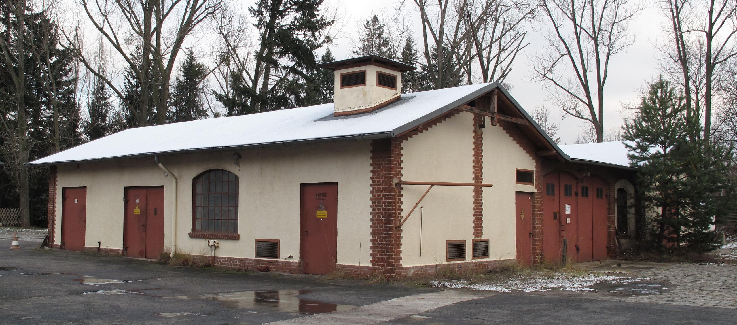 Storehouse of the „Kraftwerk Schönow“ (power station), situated directly next to the Teltow-Werft (shipyard) in Berlin-Zehlendorf. The shipyard has emerged in 1924 from the building yard and its harbour, which were opened in 1906 especially for the maintenance of the tow-locomotives and for the supply of the Teltowkanal (canal). The shipyard was closed in 1962. The harbour and most of the buildings, mainly built according to plans by the engineering office Havestadt & Contag, are listed today. Also listed and built by Havestadt & Contag in 1904/05 is the directly adjacent „Kraftwerk Schönow“ (power station, initially also for the building yard and the canal).